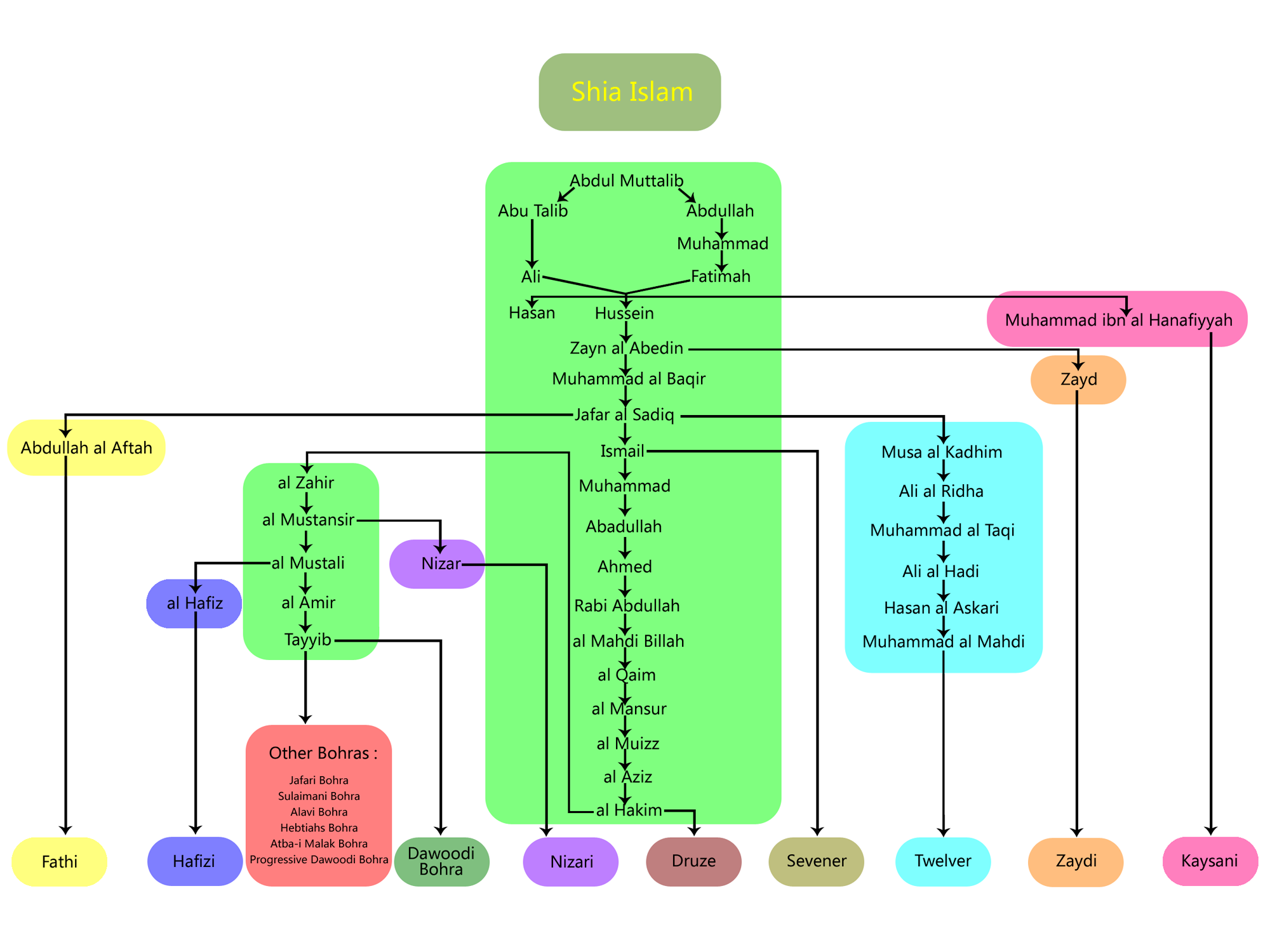 Branch of Shi'a Islam , (Note; Hanafiyyah is descendant of ali from another wife , not Fatimah)